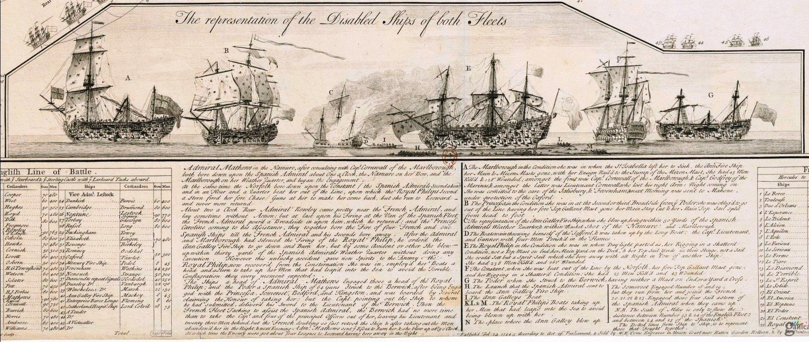 Detail of an engraving of the plan of the naval battle off Toulon in 1744 with a summary of the action. (Original English).